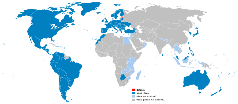 Visa free or visa on arrival for Estonian citizens